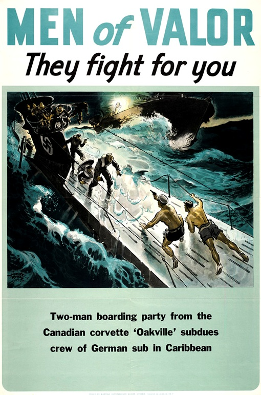 "Men of Valor" (Canada)